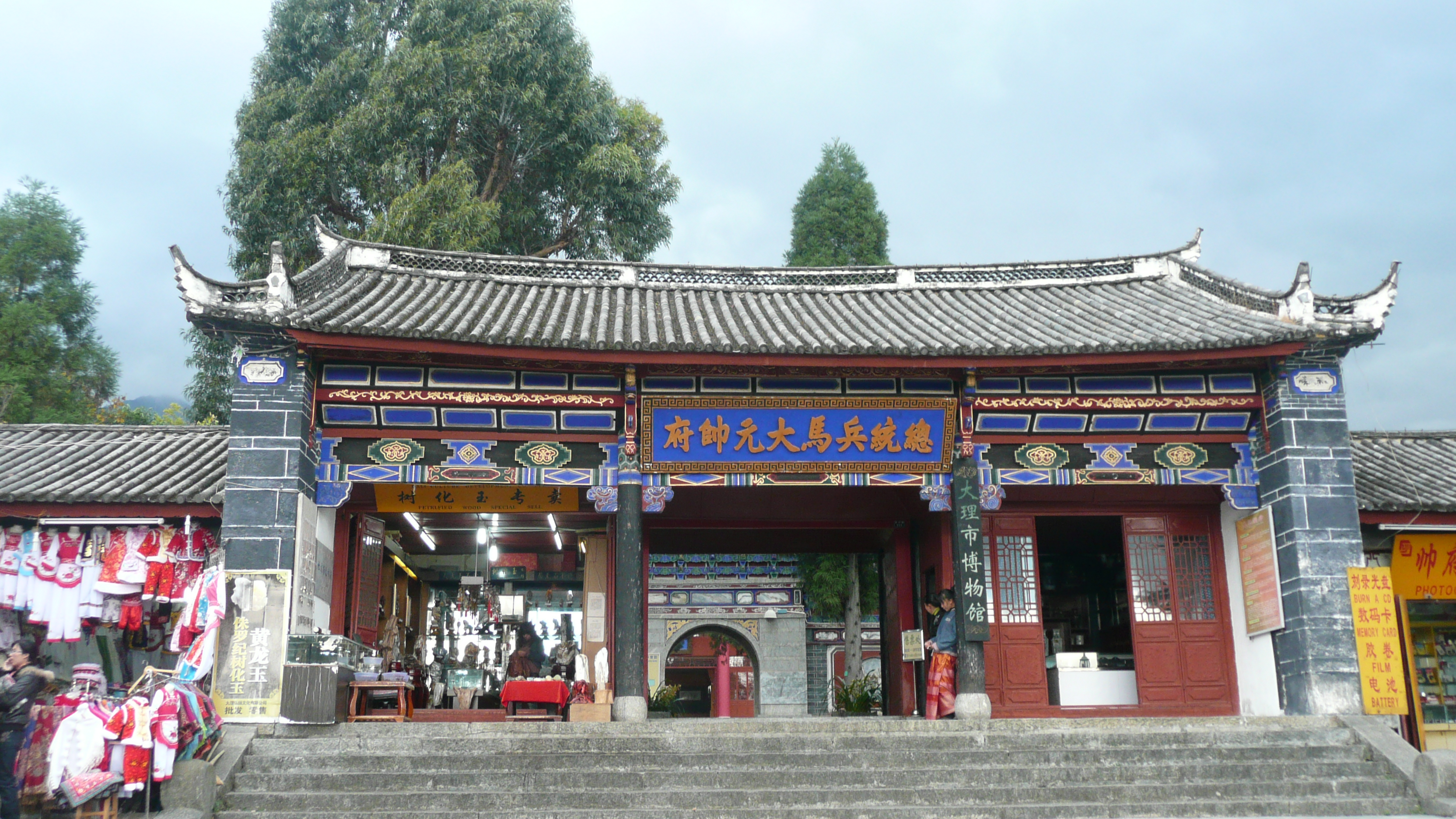 Dali Old Town, Yunnan